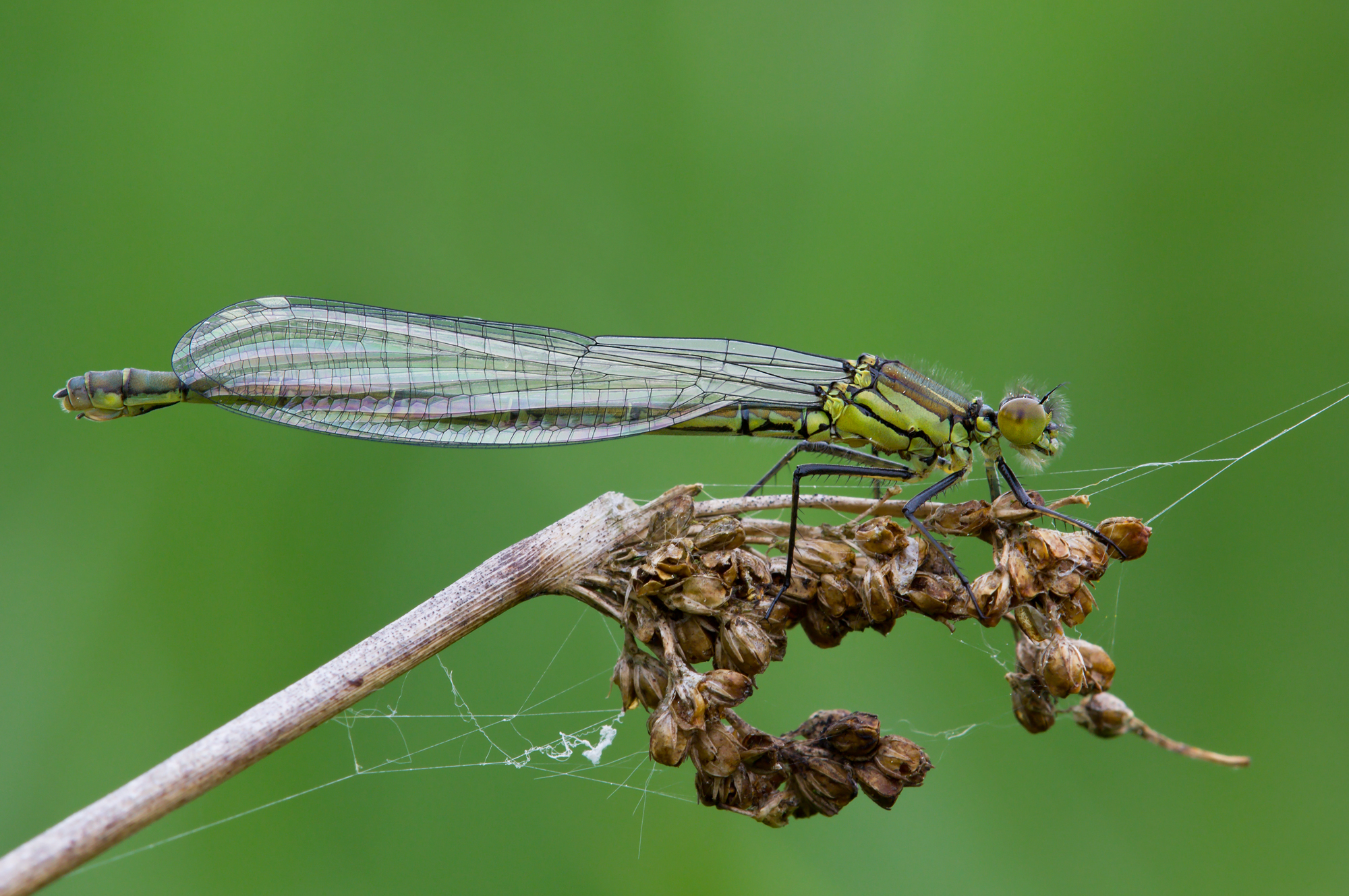 A young, immature female Red-eyed Damselfly (Erythromma najas), not yet fully colored.